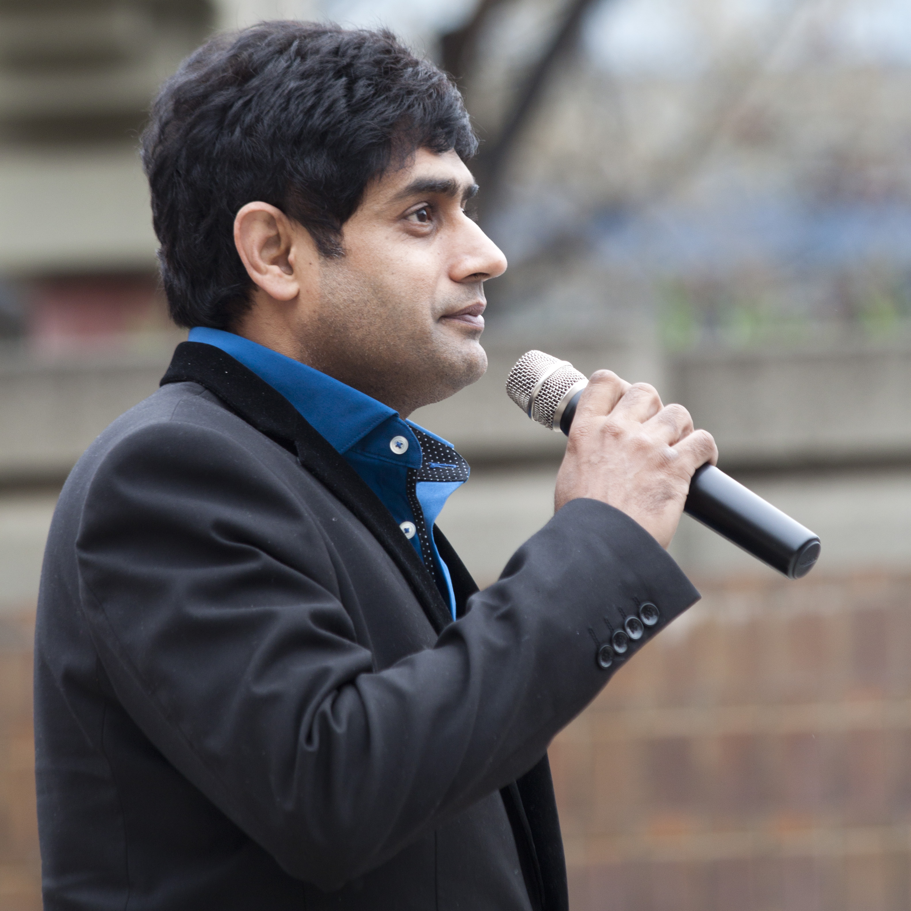 Abrar-ul-Haq speaking at PK FEST 2014, a Pakistani cultural festival put on by the Pakistani Canadian Cultural Association of Alberta, held at Olympic Plaza in downtown Calgary, Alberta, Canada on May 10, 2014.